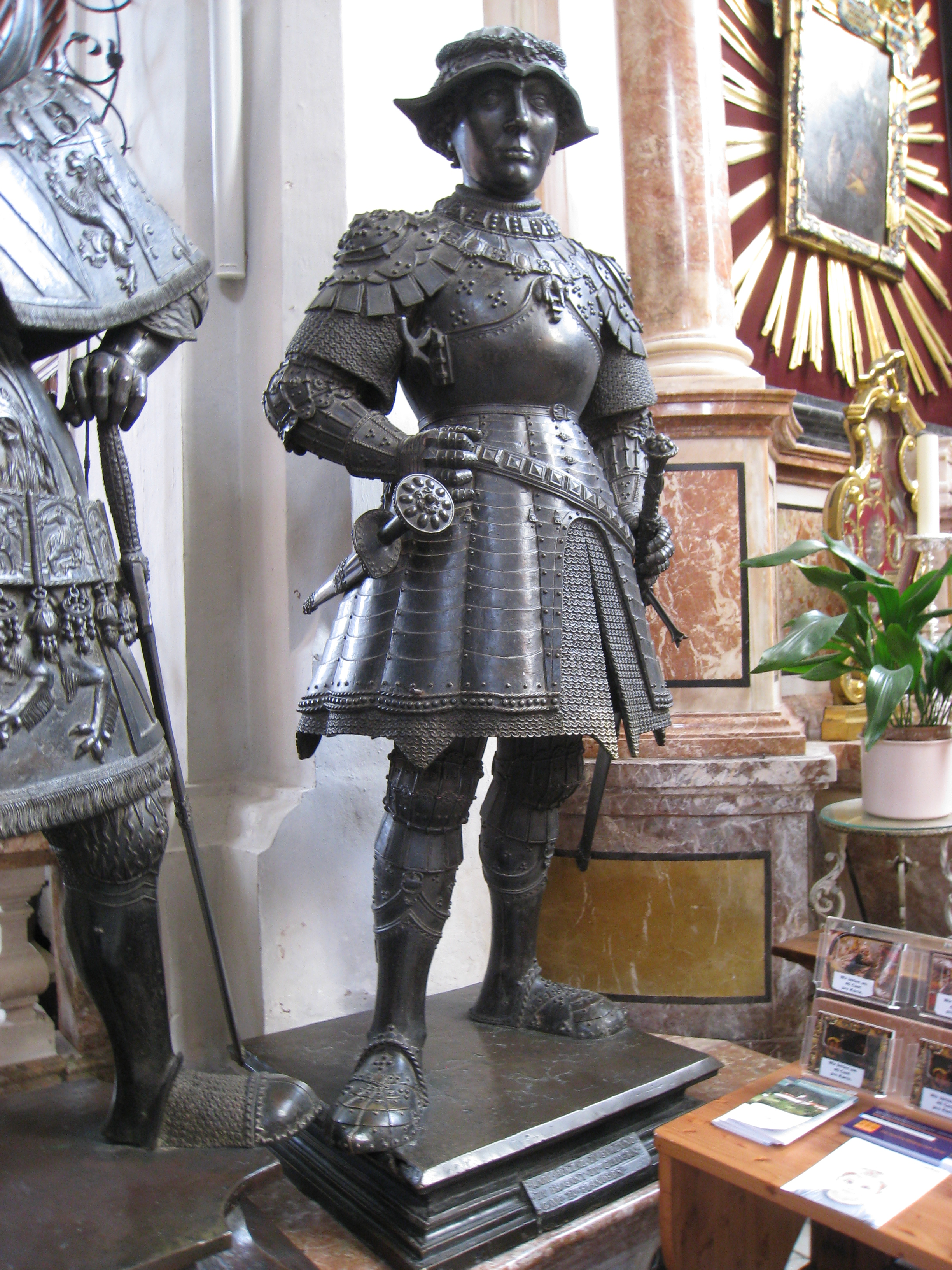 Statue within Hofkirche, Innsbruck, Austria. This statue is old enough so that it is not covered by any copyright.